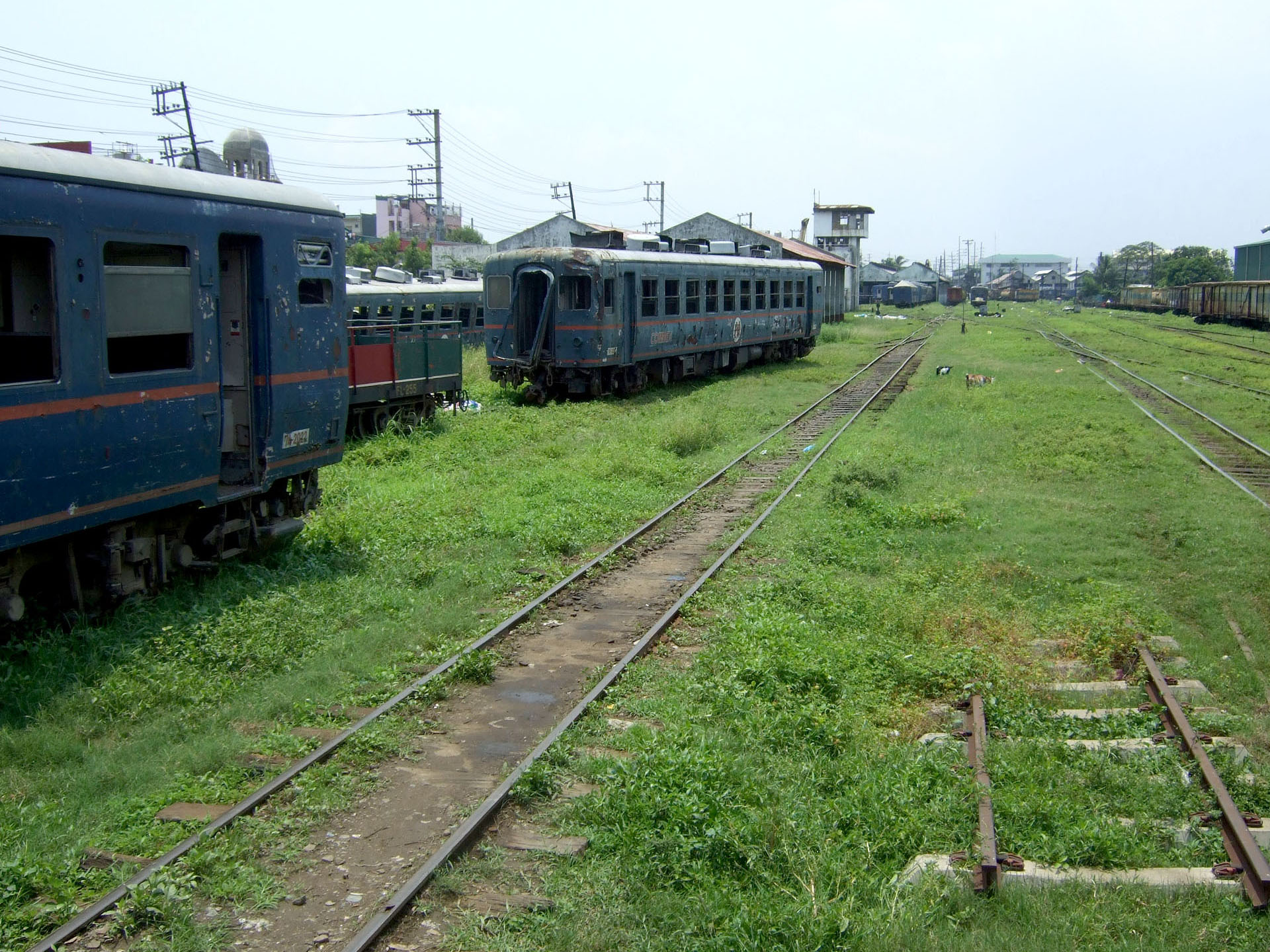 Tayuman station plathome (Philippine National Railways in Manila)